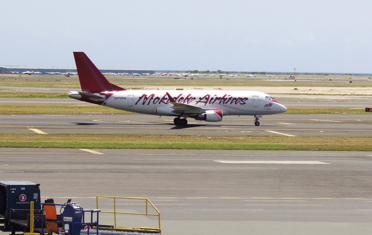 Embrarer 170 serving on Hawaiian inter-island routes for Mokulele Airlines.